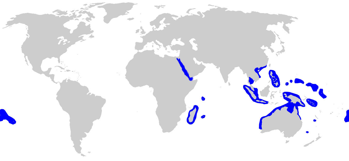 Distribution map for Carcharhinus amblyrhynchos